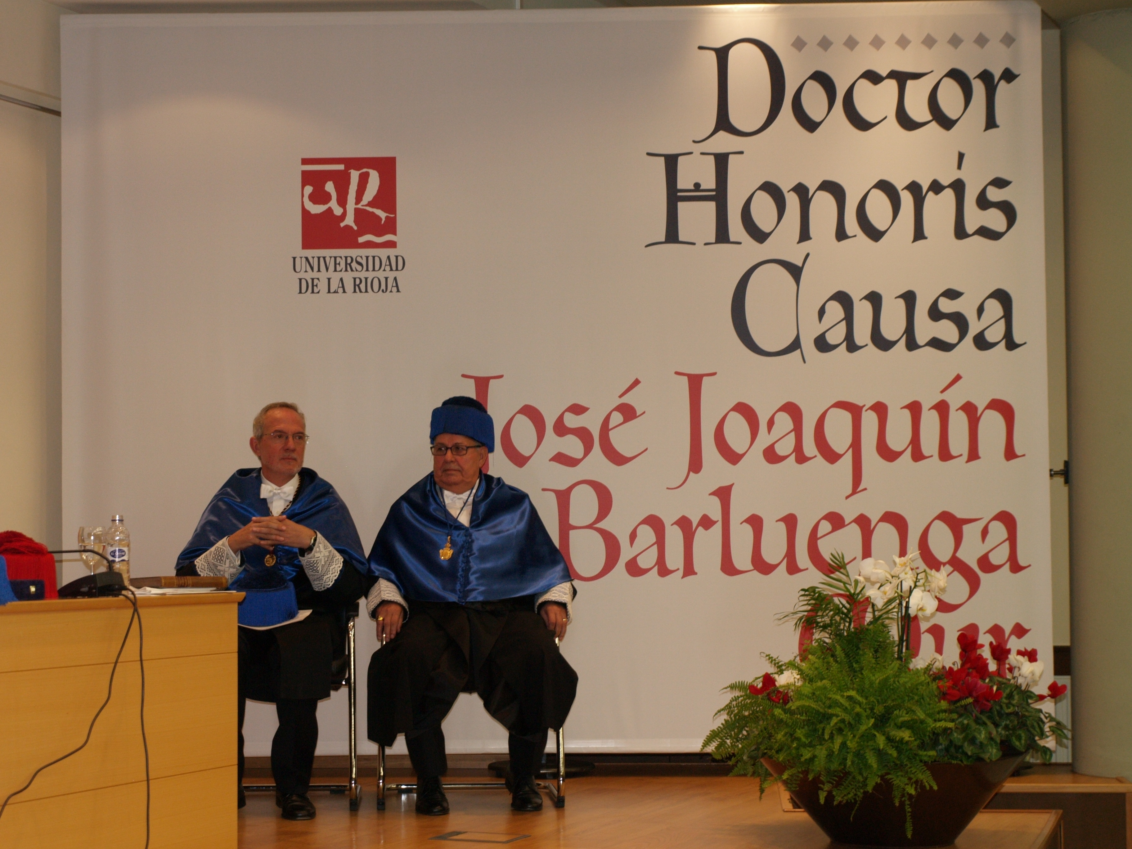 Joseph J. Barluenga (right), in the imposition of the title of Doctor "Honoris Causa 'by the University of La Rioja (Spain).